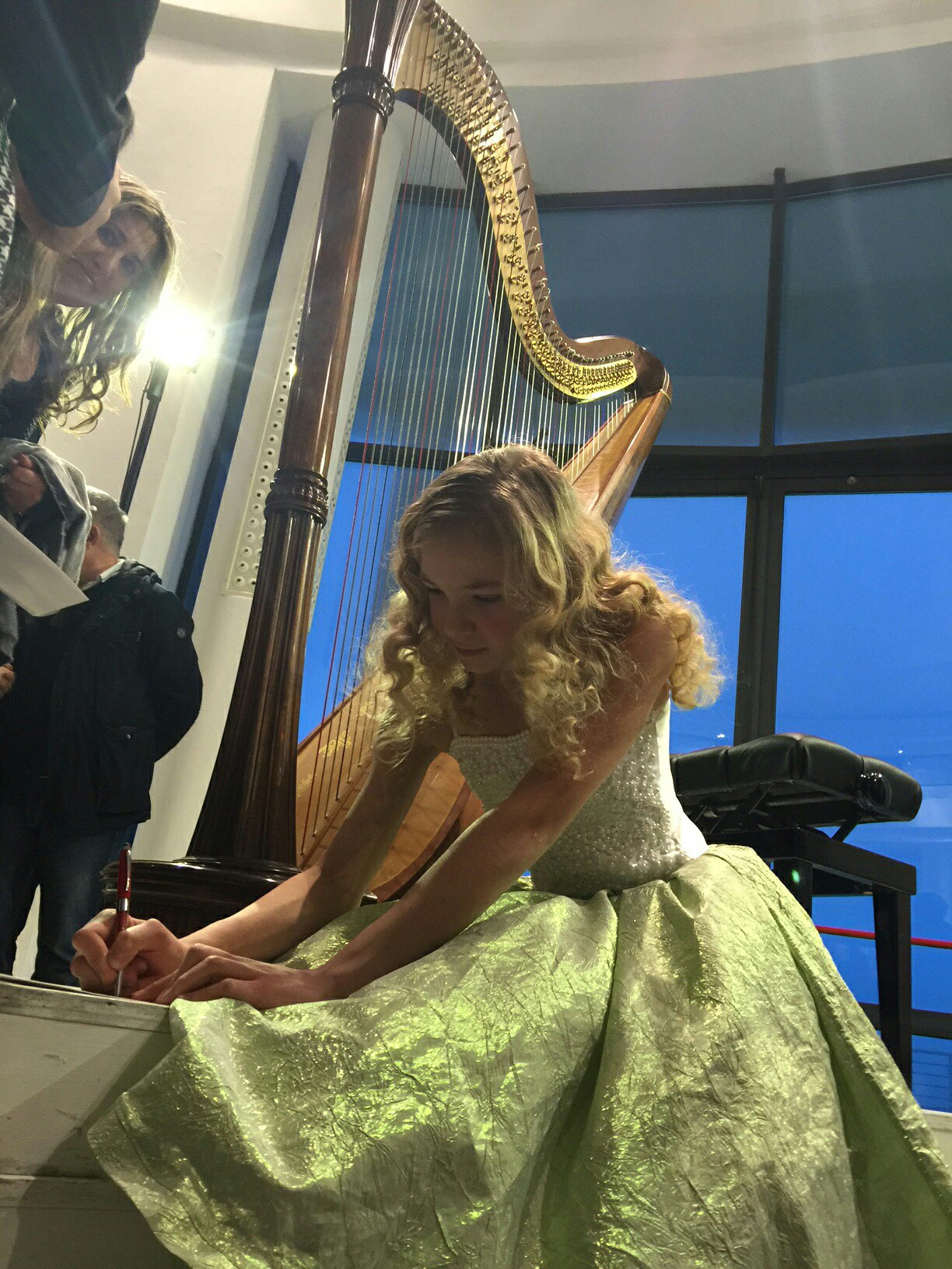 Alisa Sadikova, Russian harpist